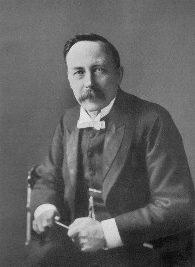 Depicted person: Peter Taylor Forsyth